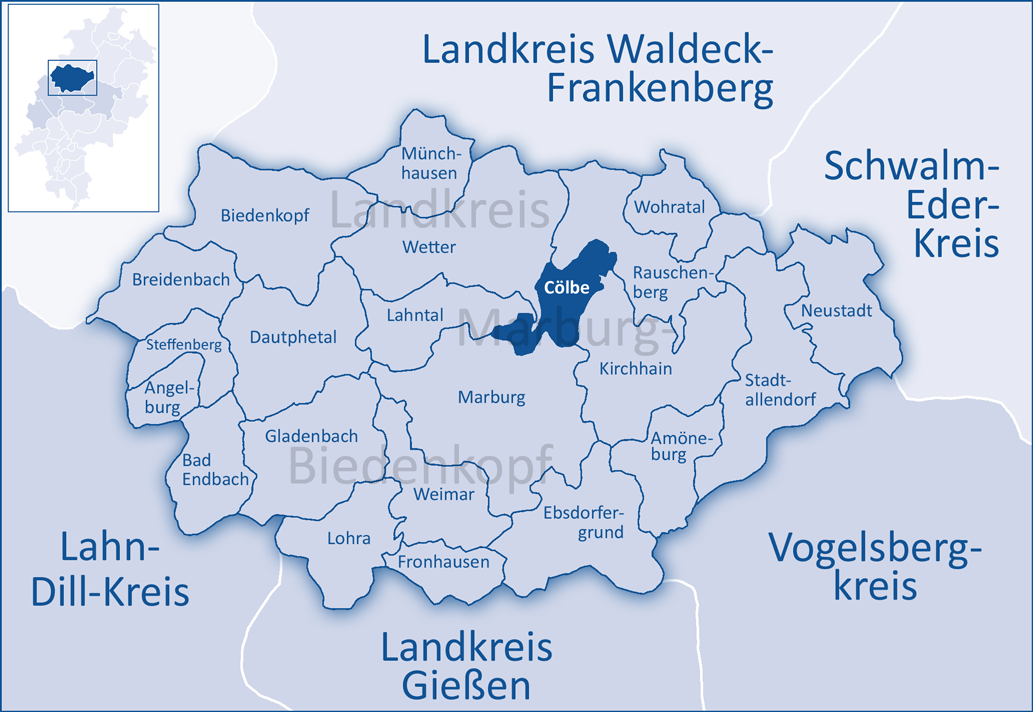 The map shows a district in the area of Marburg-Biedenkopf